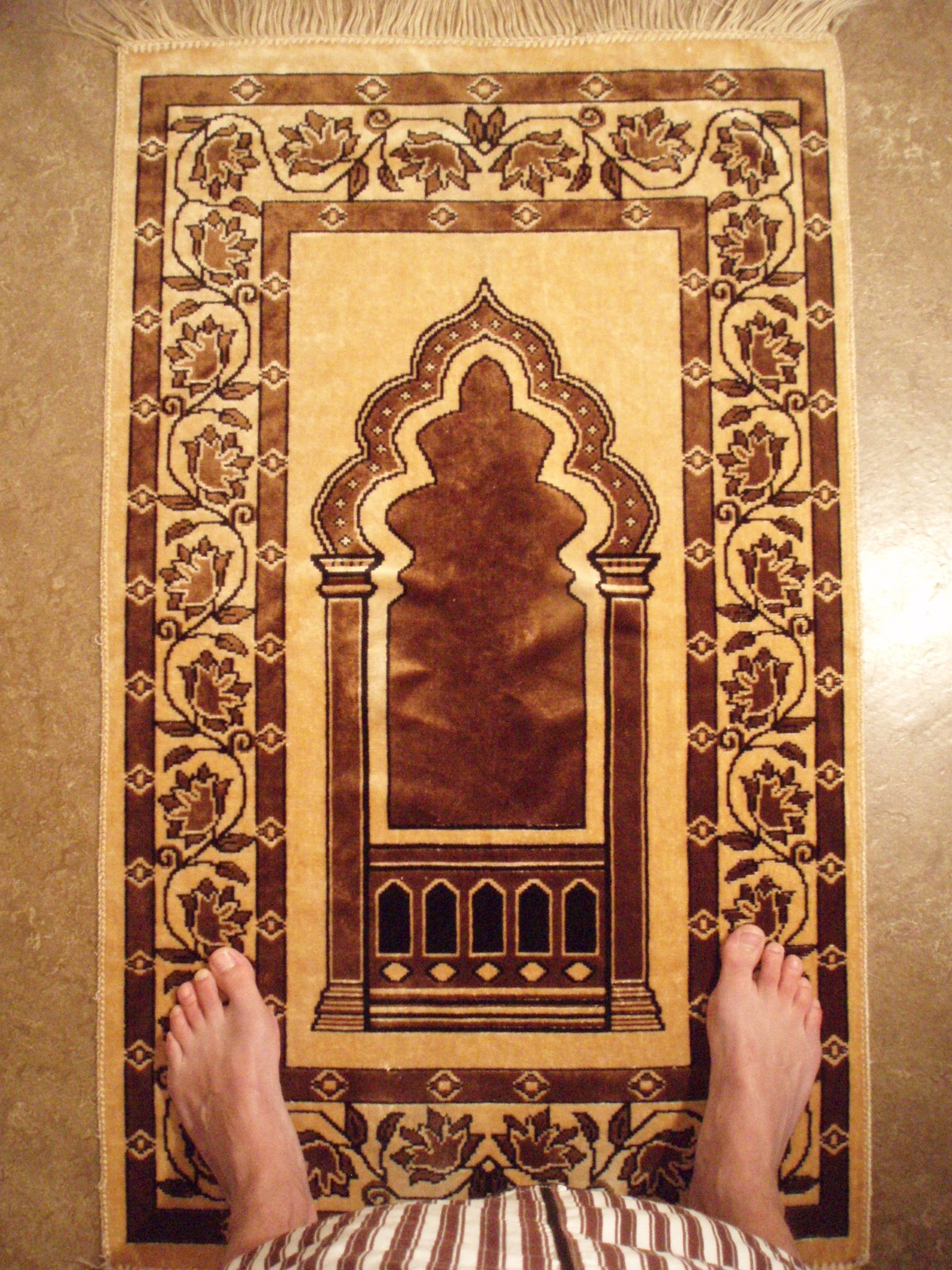 Prayer mat with feet